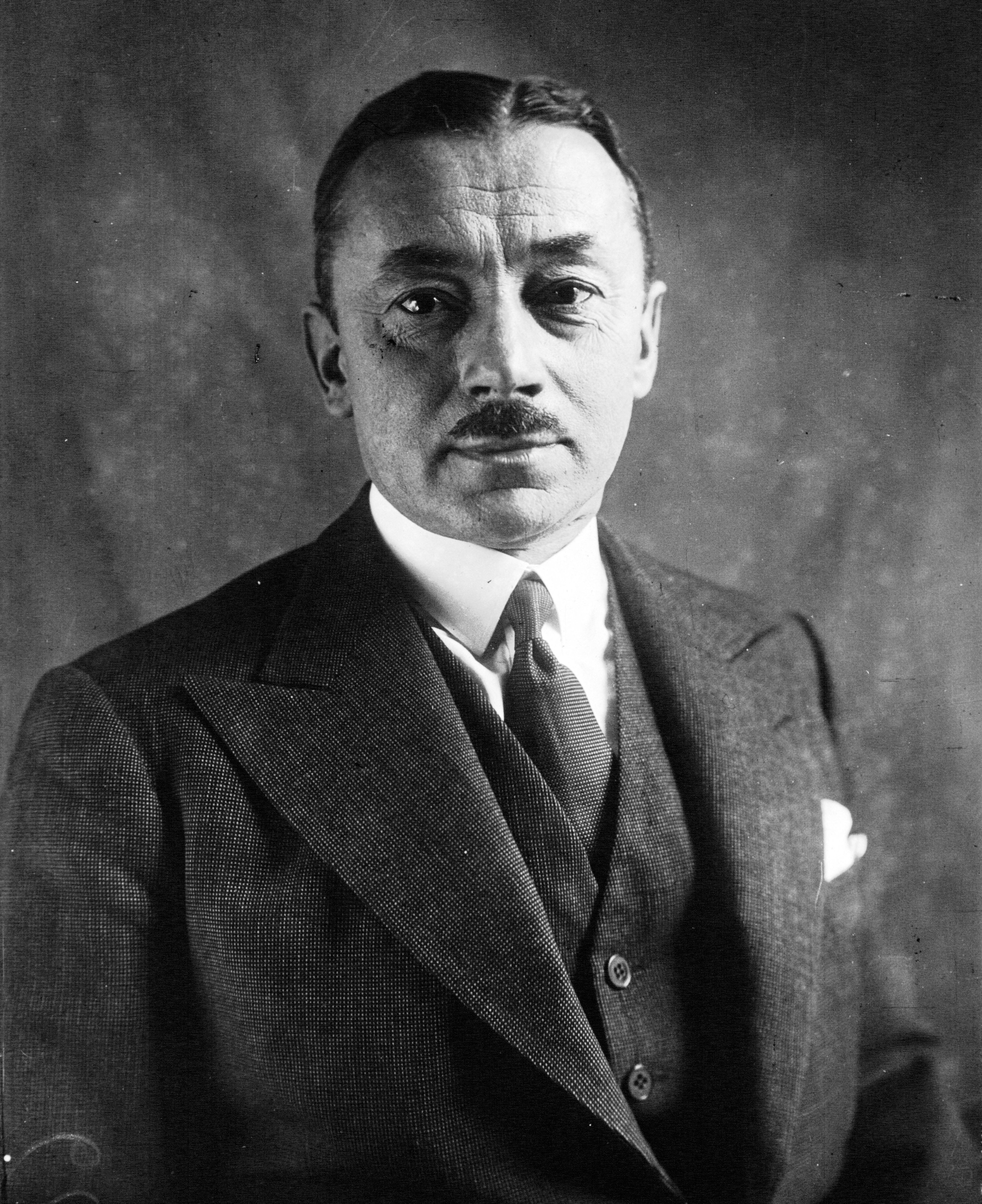 Portrait of Paul Reynaud as deputy of the Seine département (1933).